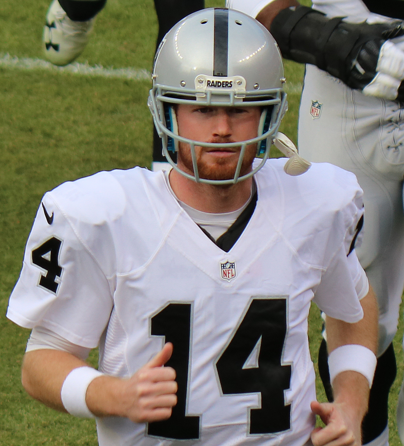 Matt McGloin, a player on the National Football League.